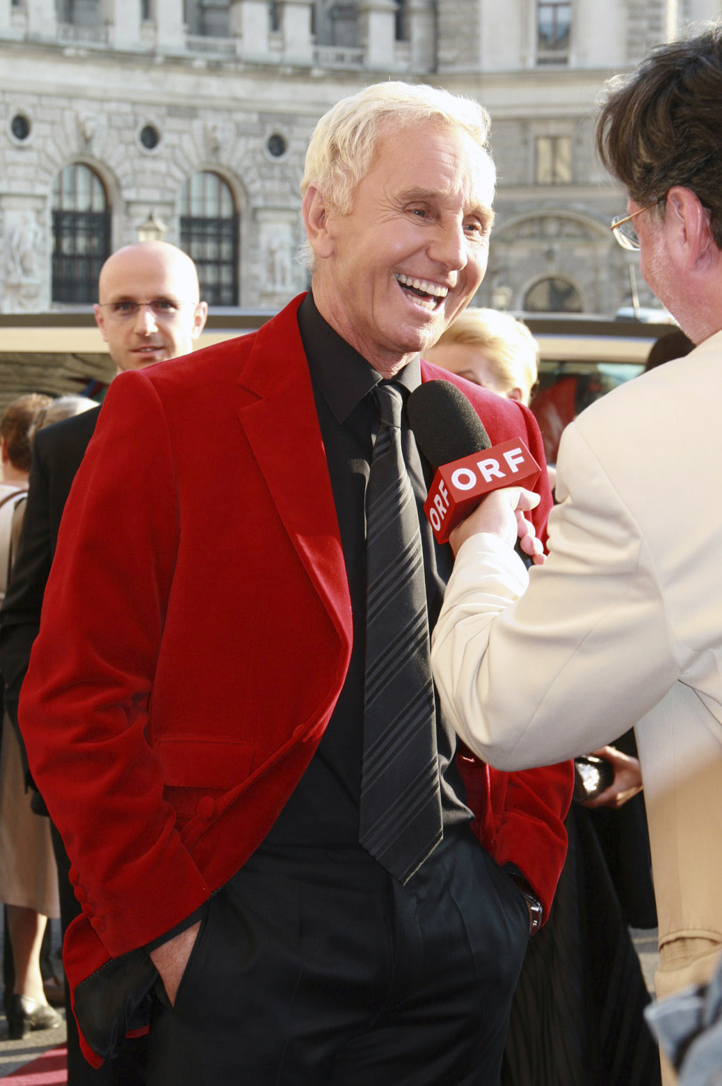 Klaus Eberhartinger at the Romy TV awards (Hofburg Imperial Palace in Vienna)